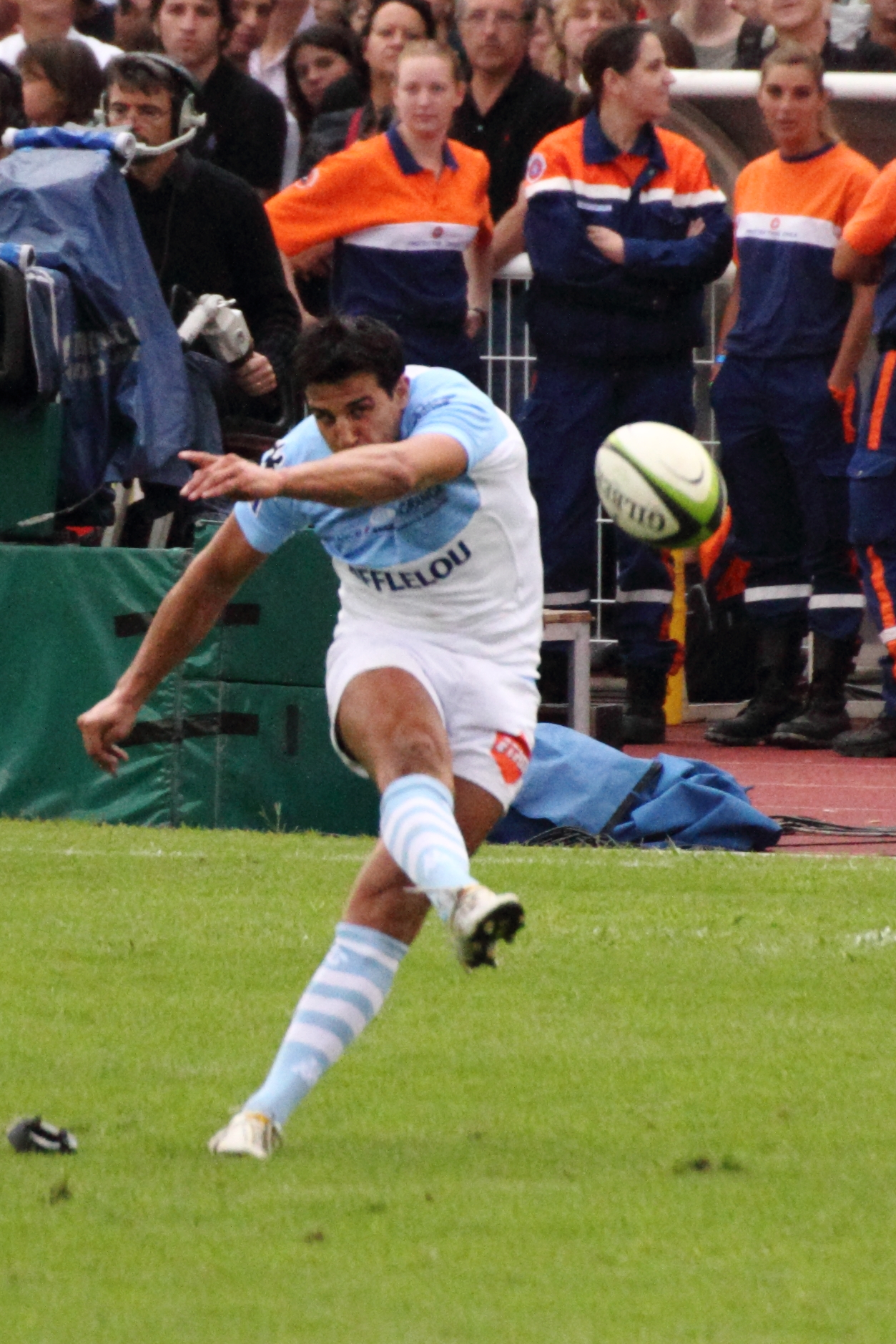 Benjamin Boyet shooting a penalty.